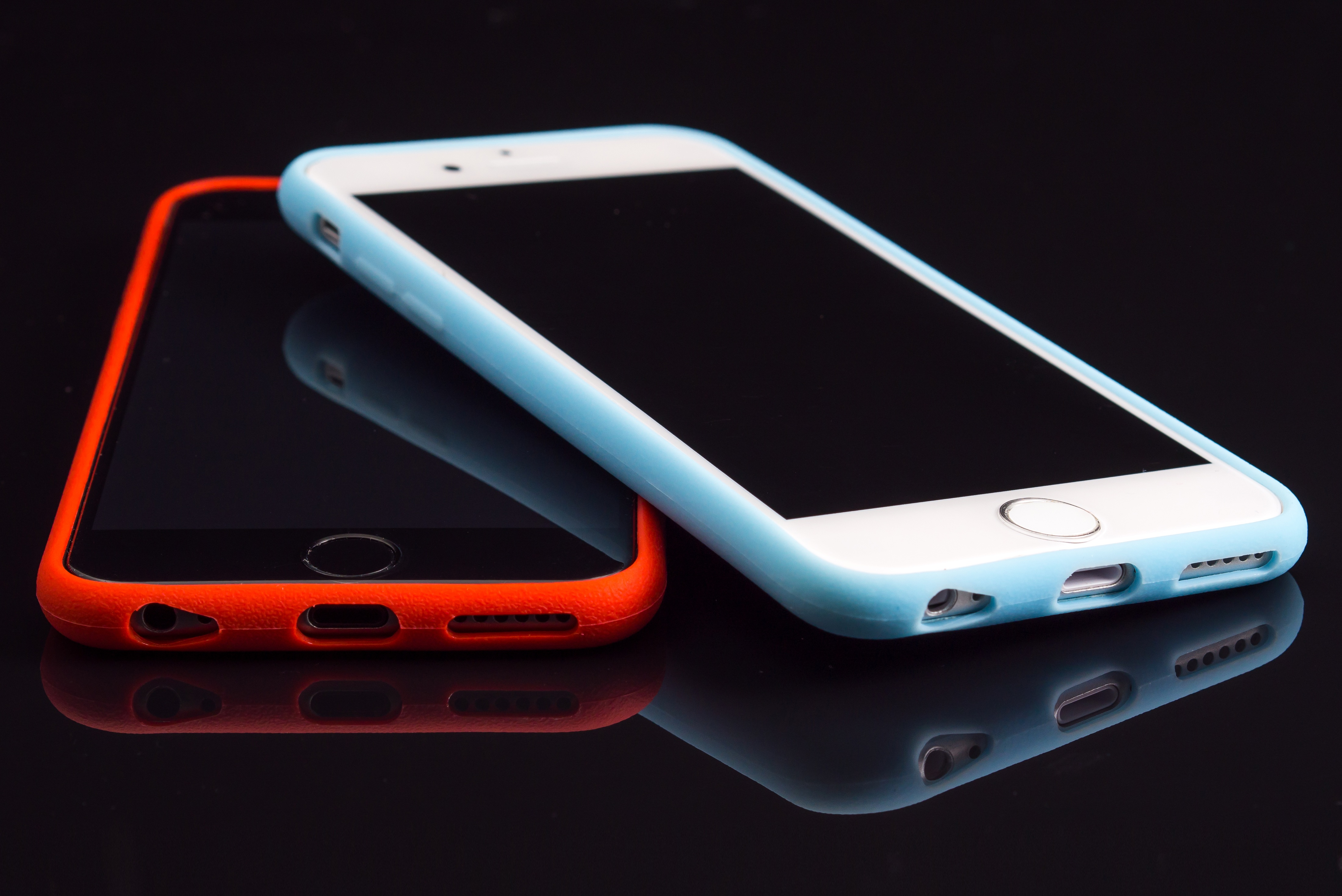 Two iPhones